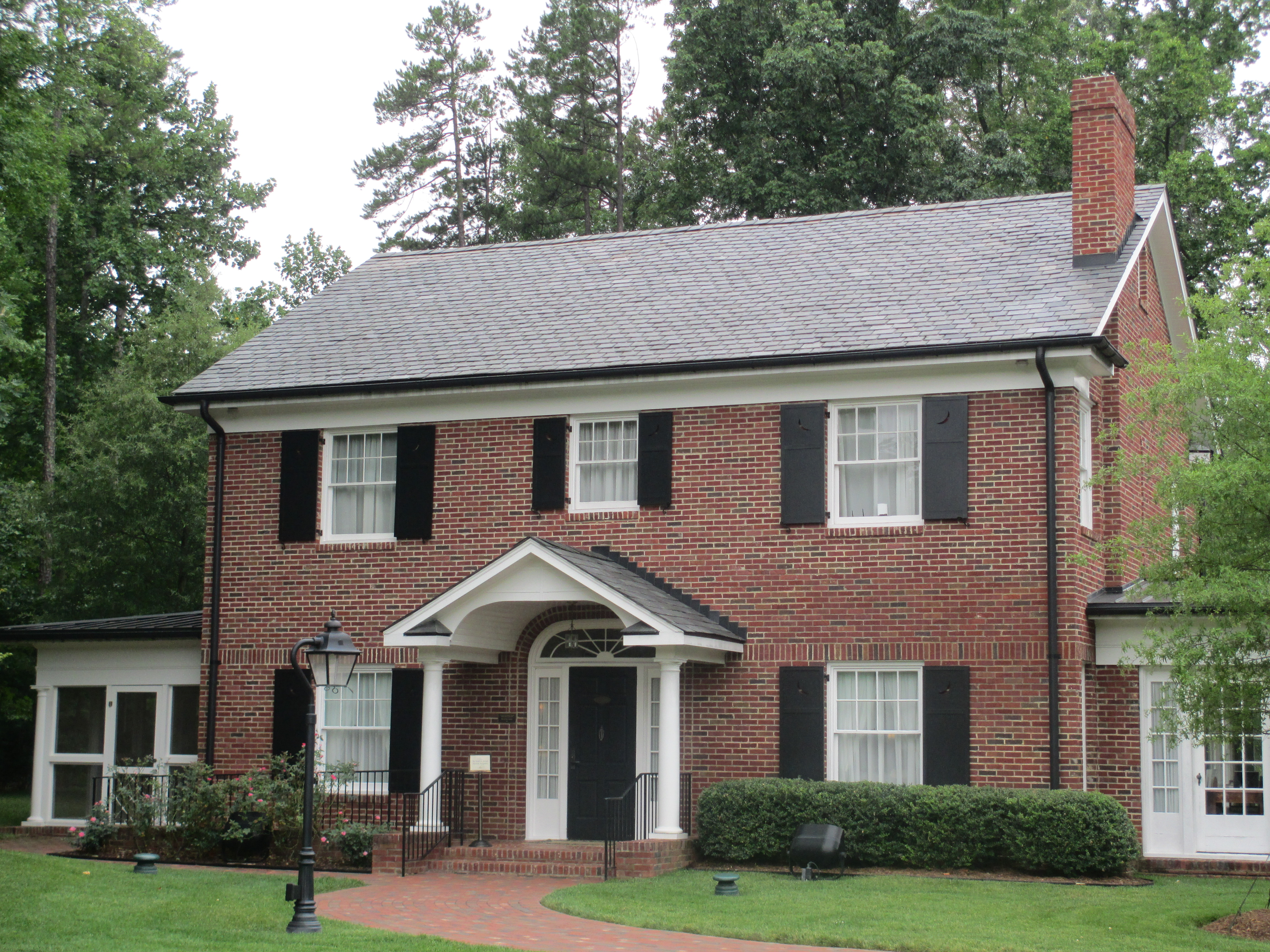 I took photo of home of Billy Graham's mother at Billy Graham Library in Charlotte, NC, using Canon camera.